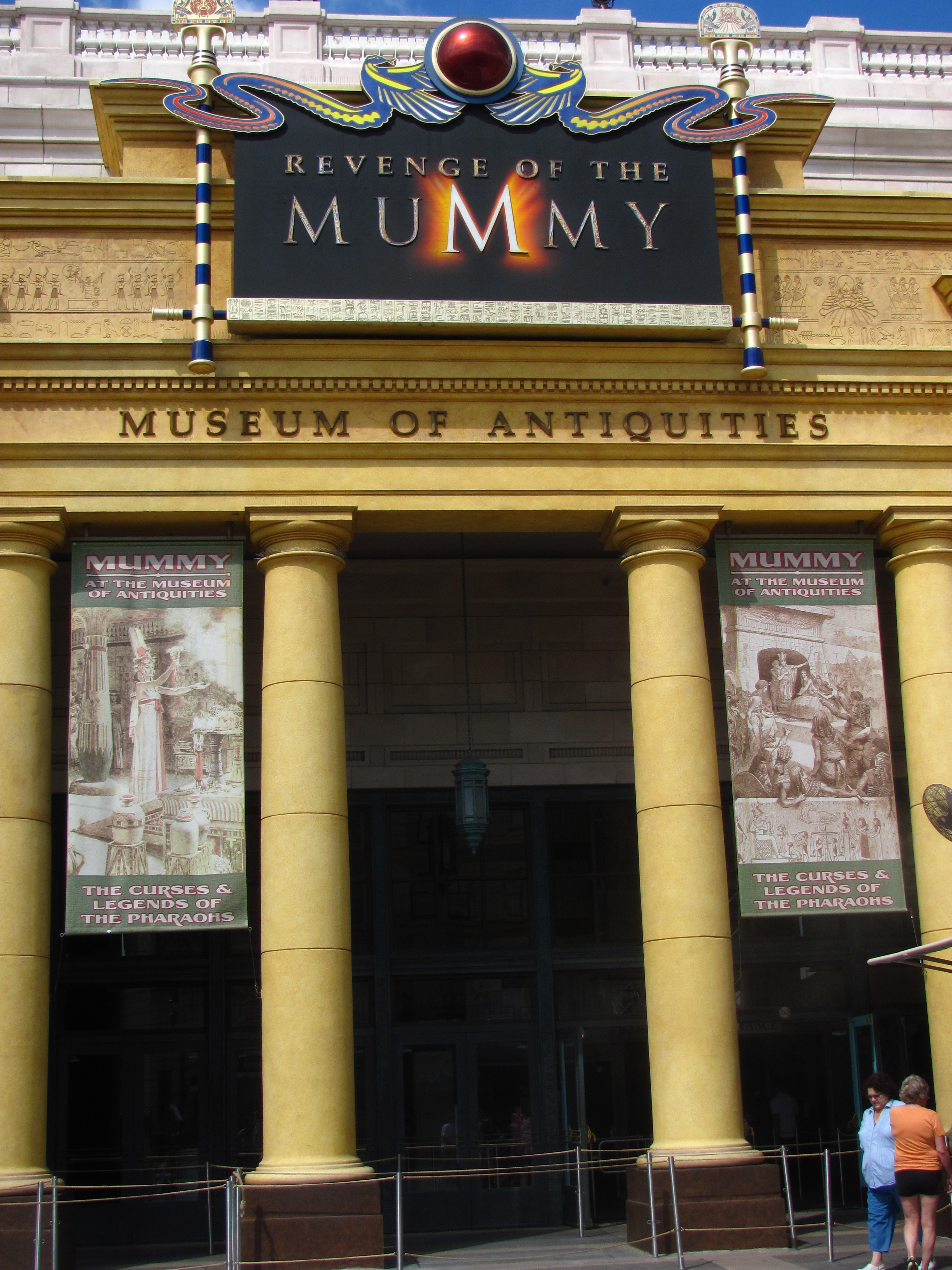 Revenge of the Mummy